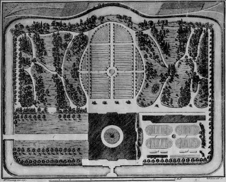 Botanical Garden Bonn, engraving, 1823